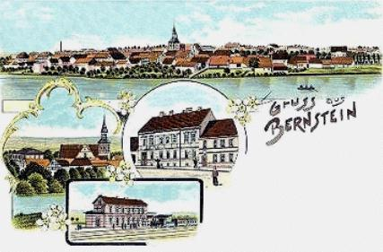 Pełczyce ca 1897.